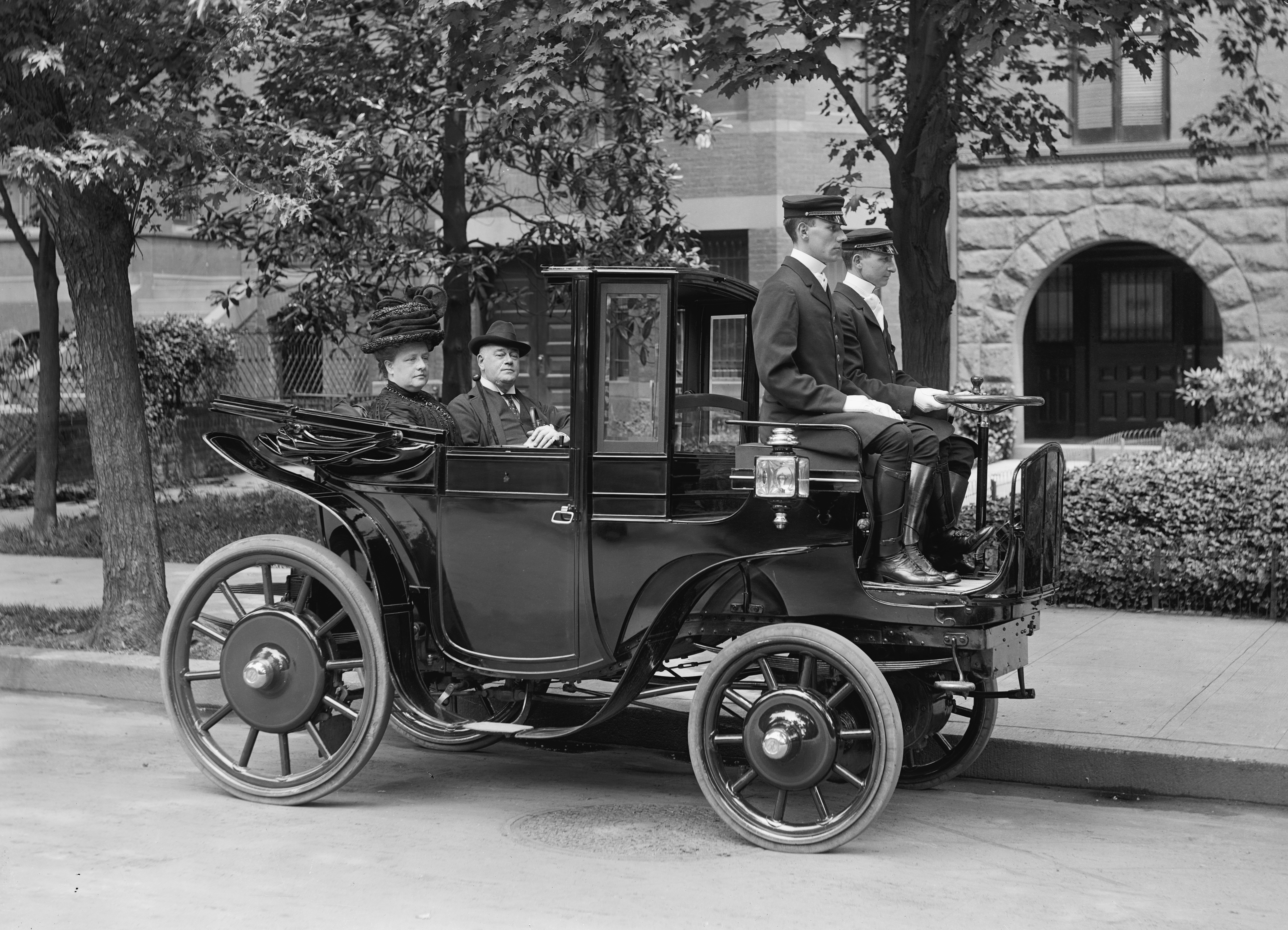 Senator George P. Wetmore of Rhode Island in a Krieger automobile, circa 1906. Senator Wetmore is in back with woman, presumably his wife. A driver and footman are in front of vehicle. : Note: Some information about the image not in Library of Congress description via discussion at [1].